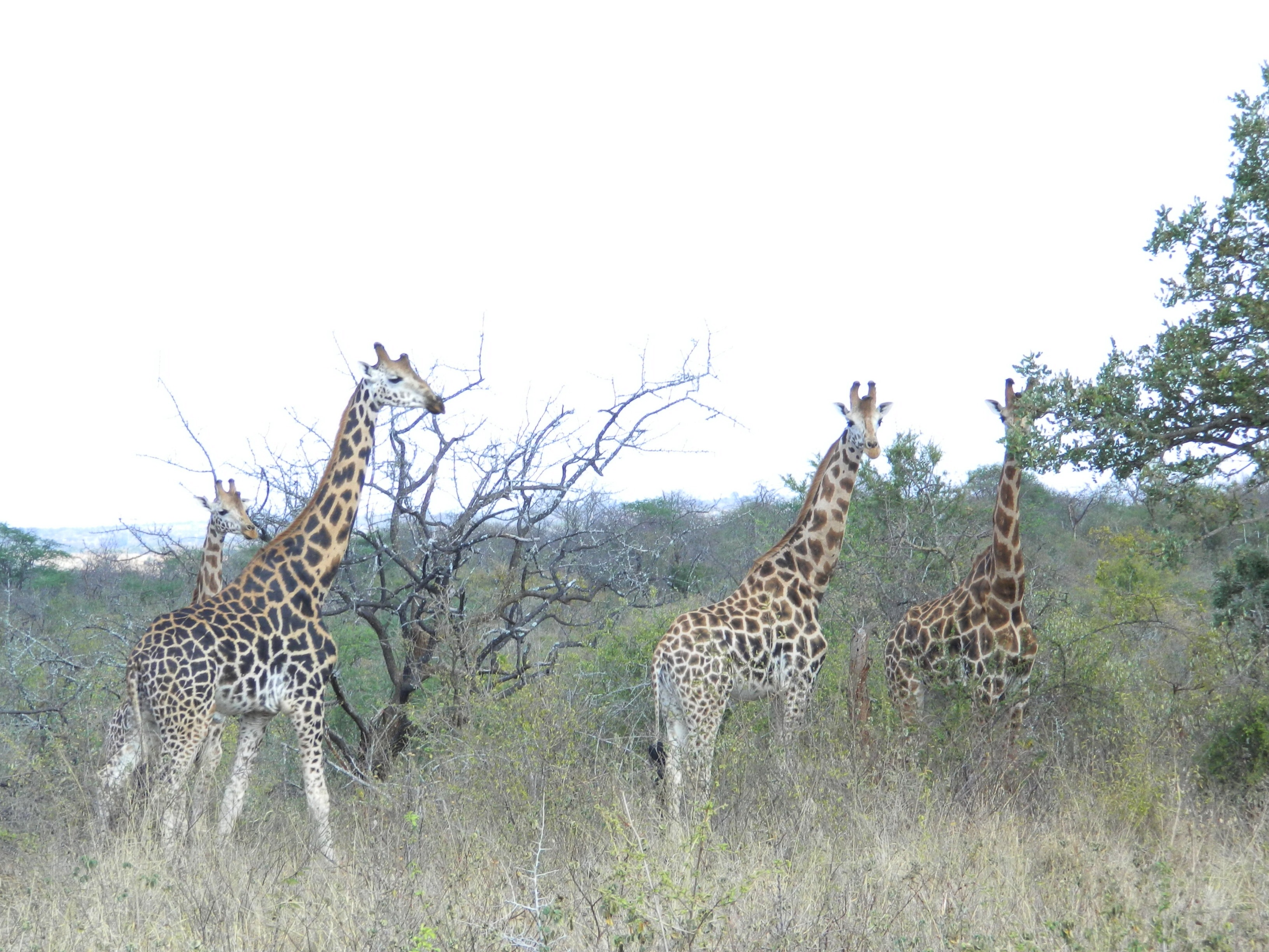 Girraffes in Mwea National reserves